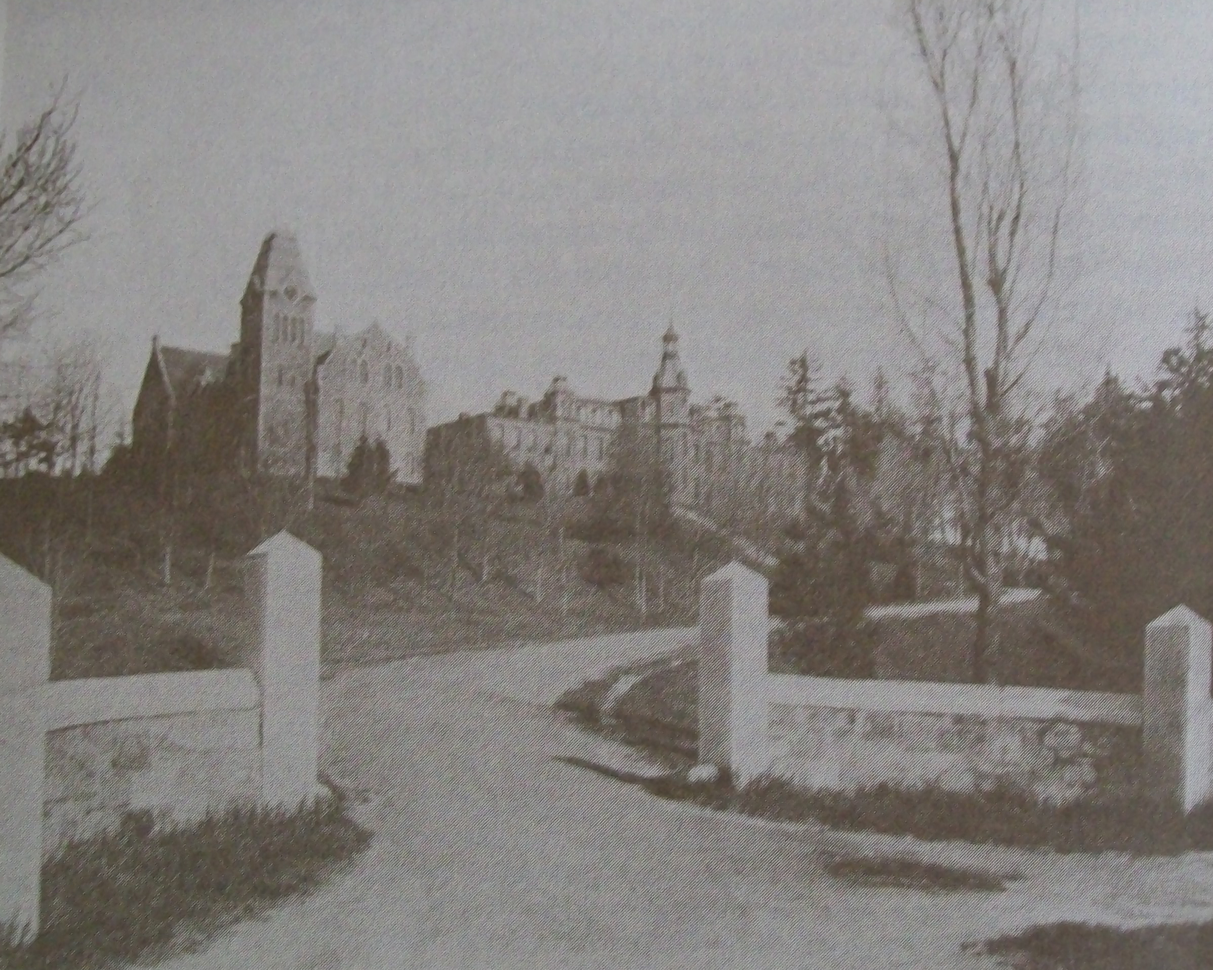 Worcester County Free Institute of Industrial Science c. 1884. It is now called the Worcester Polytechnic Institute